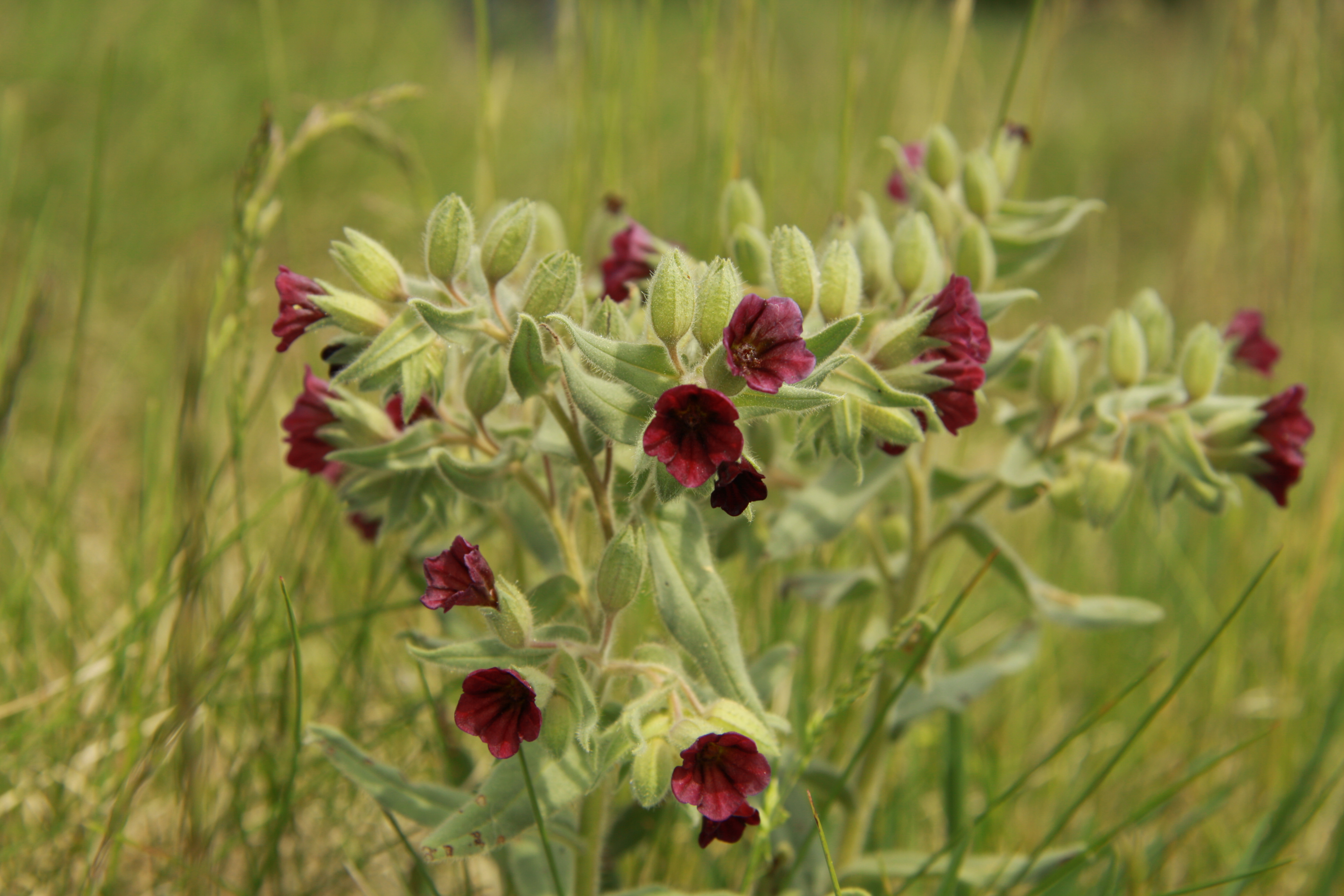 Nonea pulla near natural monument Branžovy. Photo was taken during wikitrip with botanist under covere of WikiProject Protected areas near Loděnice, Czech Republic Project: Fotíme Česko